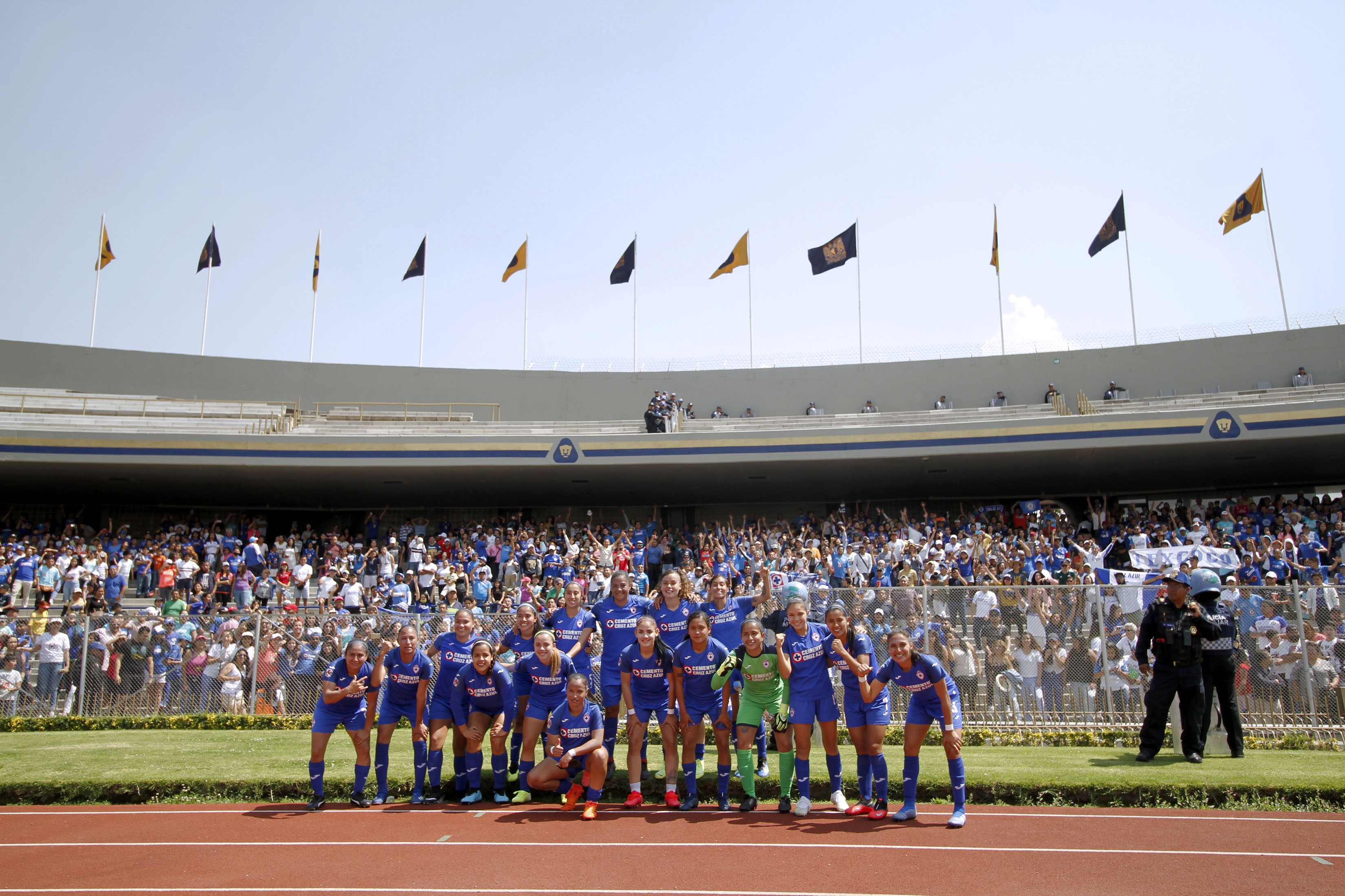 Cruz Azul Football Club female team at Pumas UNAM in Mexico City. Saturday 14 March 2020. Picture by Maritza Rios / Secretaria de Cultura de la Ciudad de Mexico.